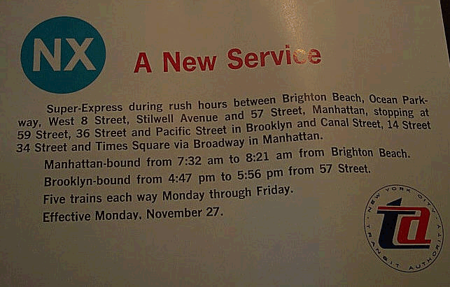 This poster was created by the New York City Transit Authority in order to inform passengers of a new super express service, the NX.